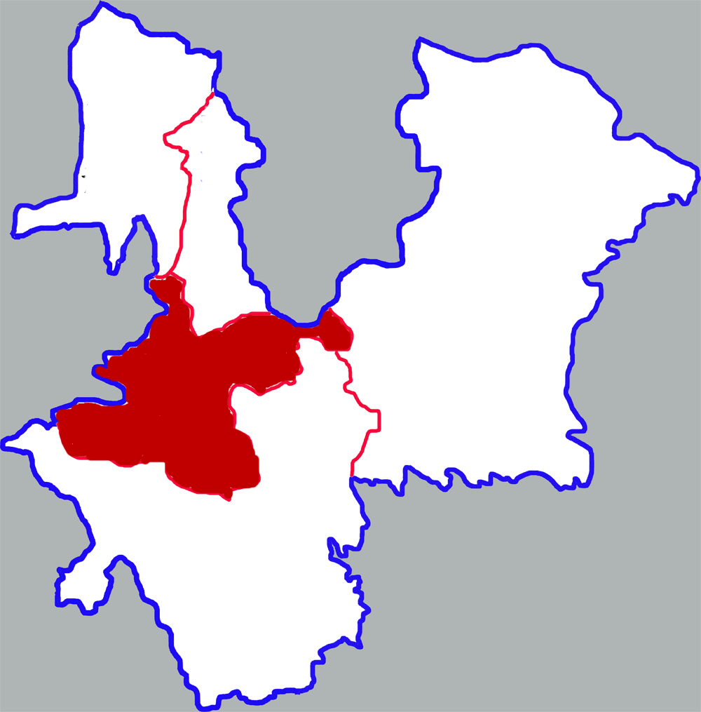 Location of Hongsibao district in Wuzhong city, China